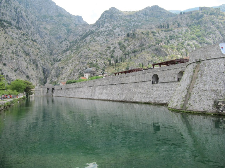 City of Kotor in Montenegro.